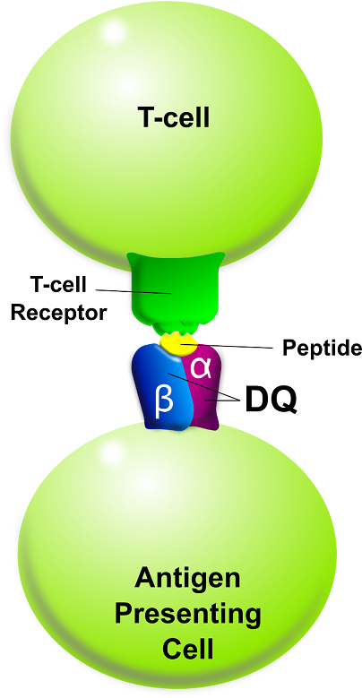 Molecular basis of the T-cell-mediated immunity.